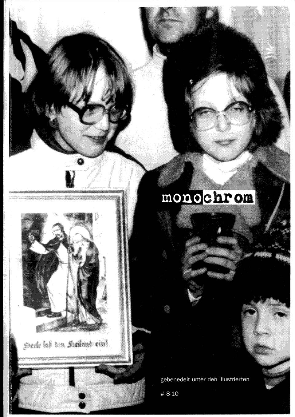 Cover of monochrom #8-10 (1998)